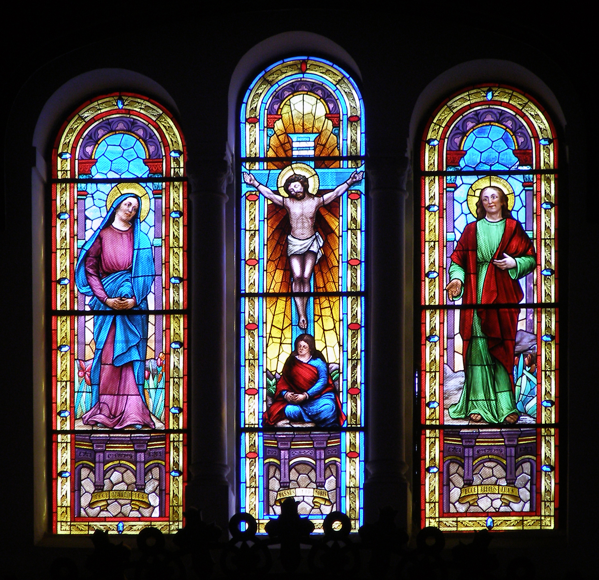 Stained glass at the Roman Catholic church of Our Lady of Ascension, or the Mother Church, of Espinho. Depicts at the centre Jesus and possibly Mary Magdalene, on the left hand side Mary, mother of Jesus, and on the right hand side the apostle John. Espinho, Portugal.